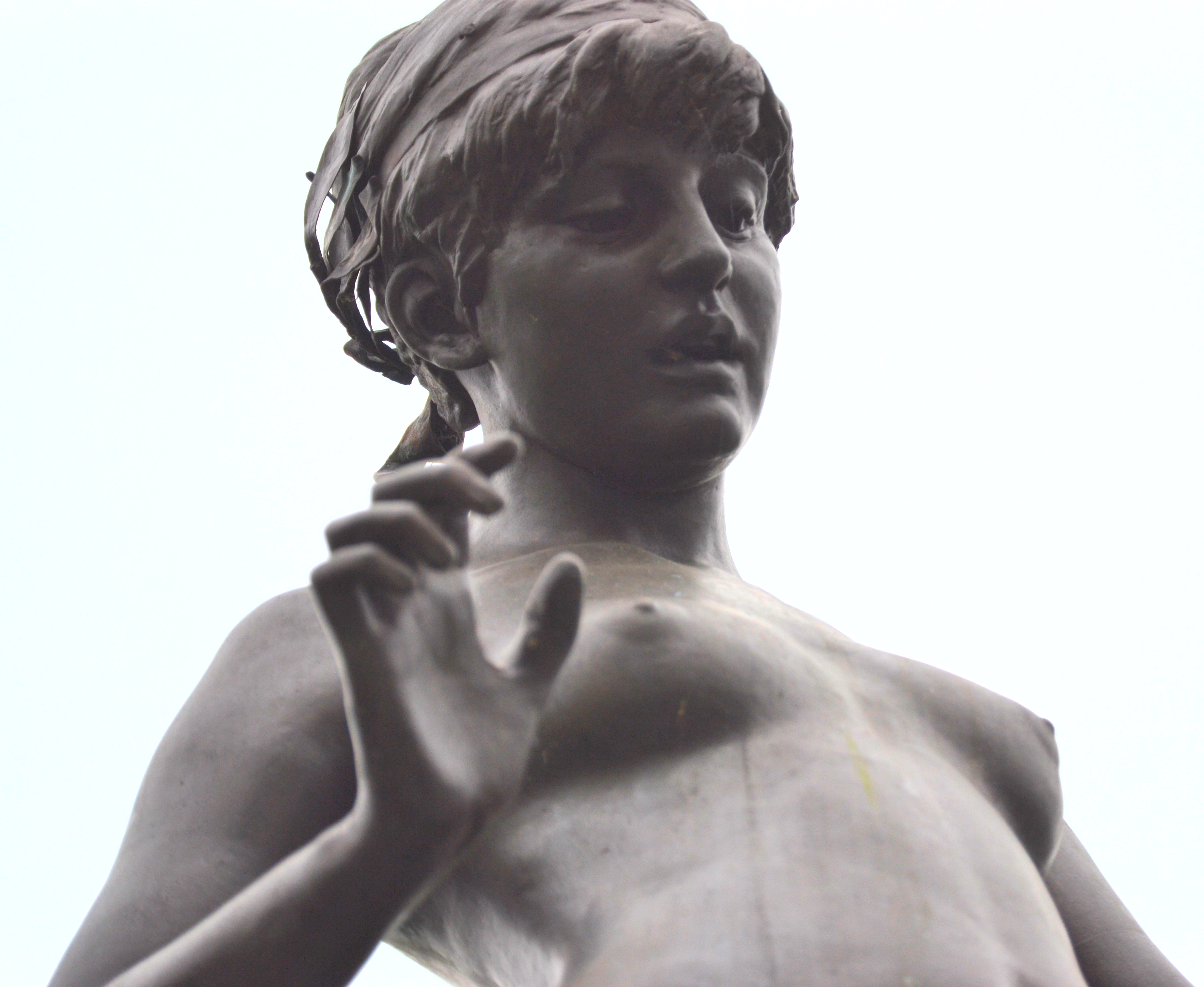 Edward Onslow Ford (1852-1901) - The Muse of Poetry (1891) low front right, face and upper torso, Marlowe Memorial nr Marlowe Theatre, The Friars, Canterbury, UK, October 2012